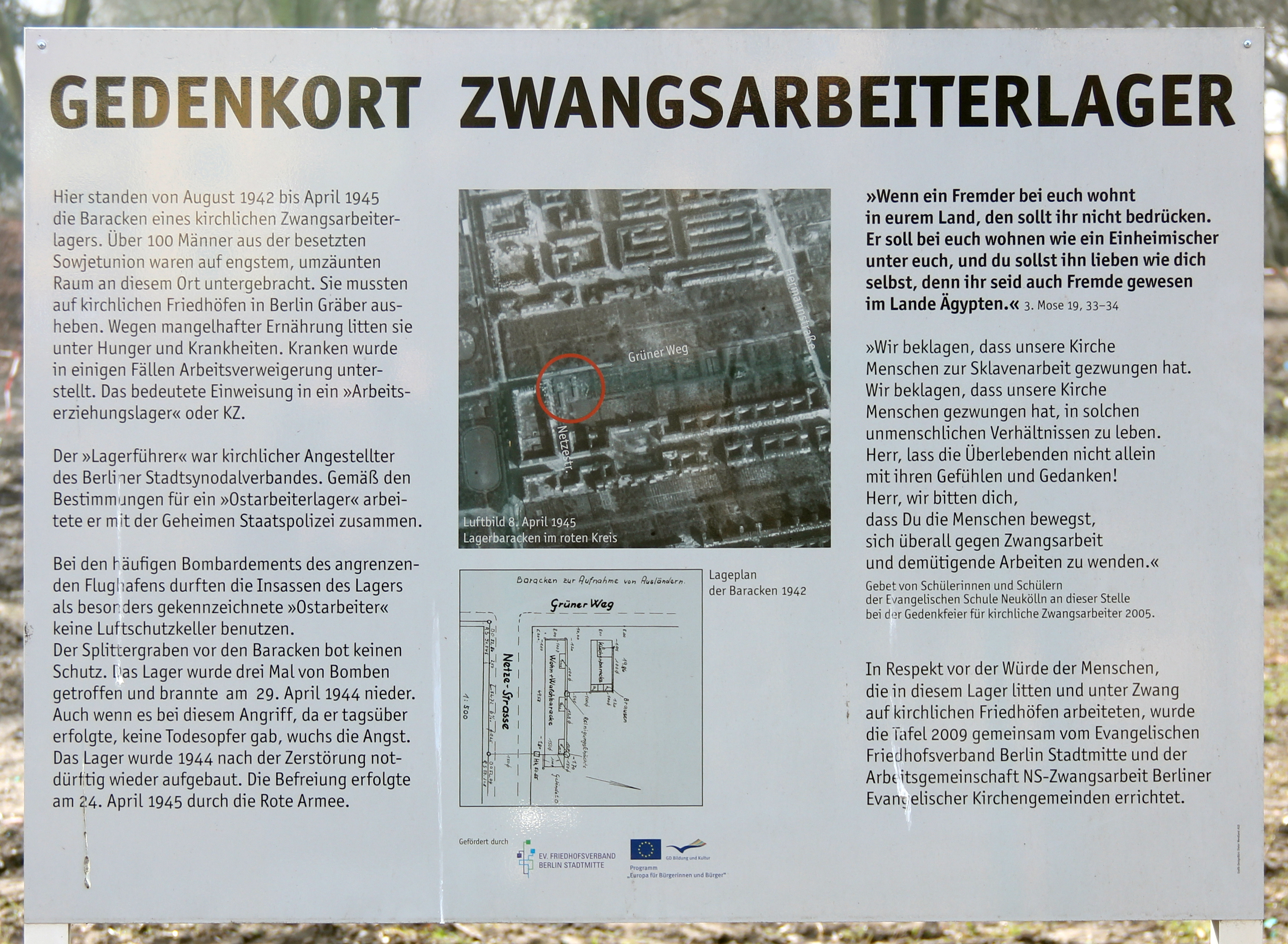 Memorial plaque, Zwangsarbeiterlager, Netzestraße 1, Berlin-Neukölln, Germany